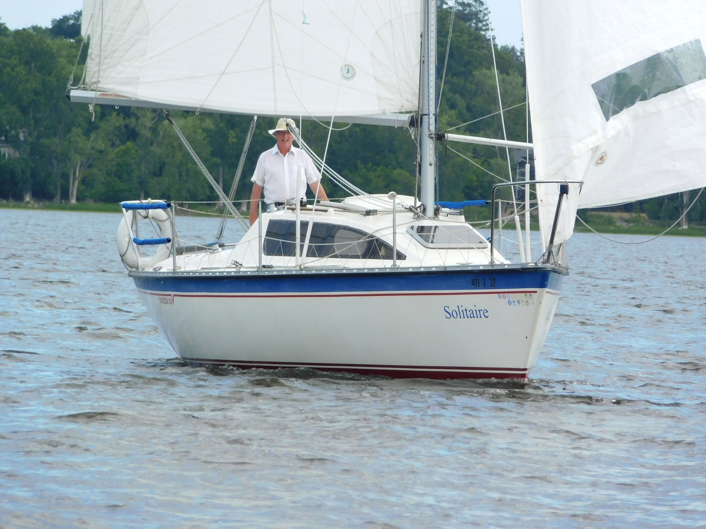 A Tanzer 25 sailboat named Solitaire.